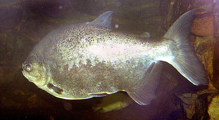 The Pacu or Gambitana is found in the major drainages from southern Brazil into Argentina. Mendoza Aquarium, Argentina.